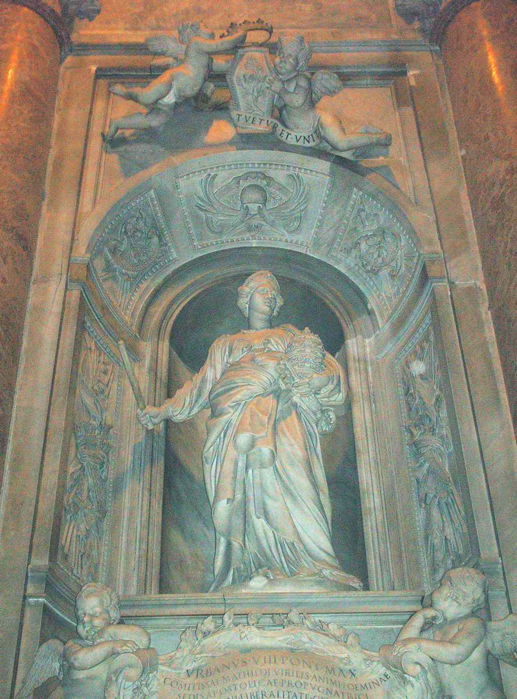 Basilica di San Pietro, Rome.